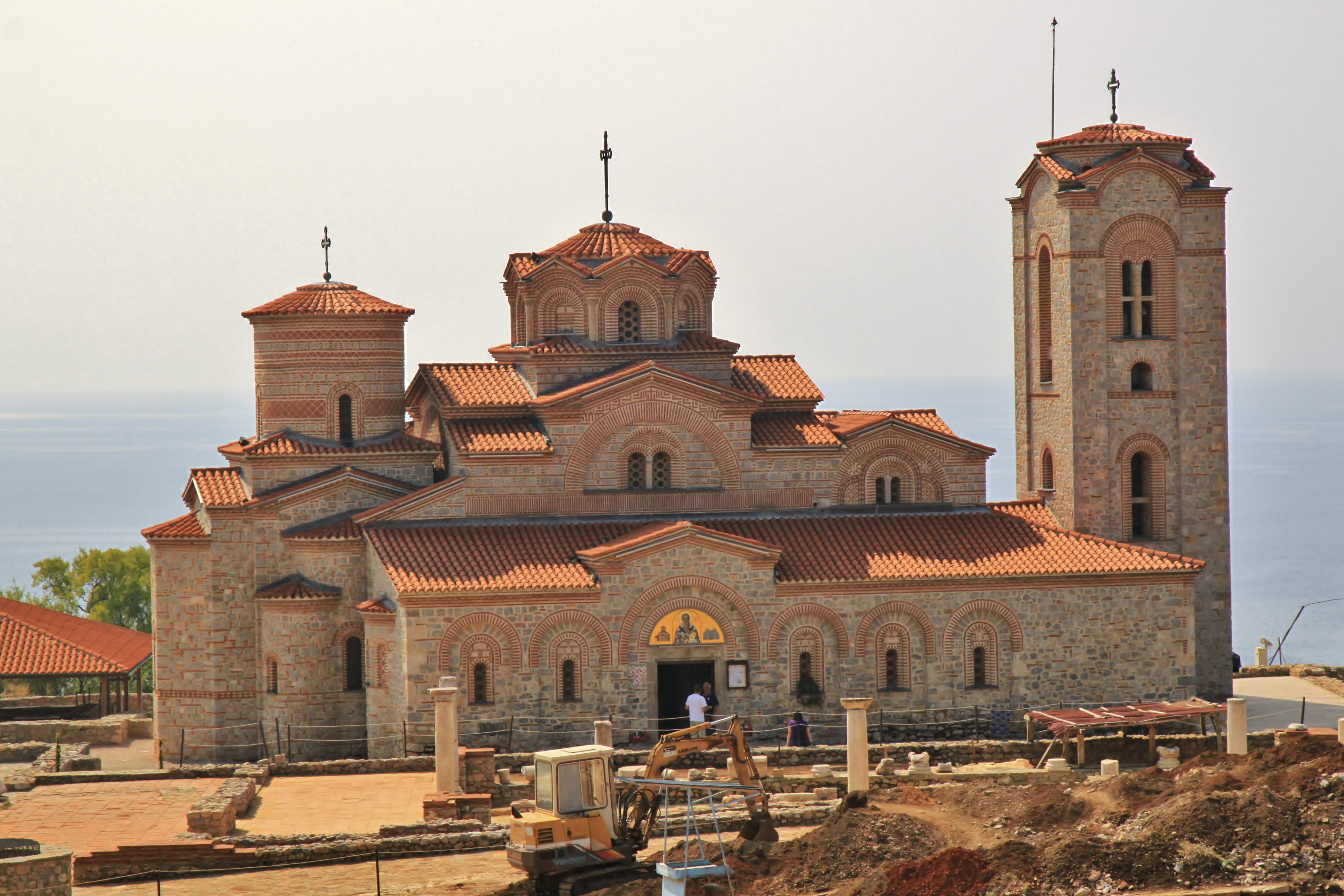 Saint Panteleimon. Ohrid, Macedonia.